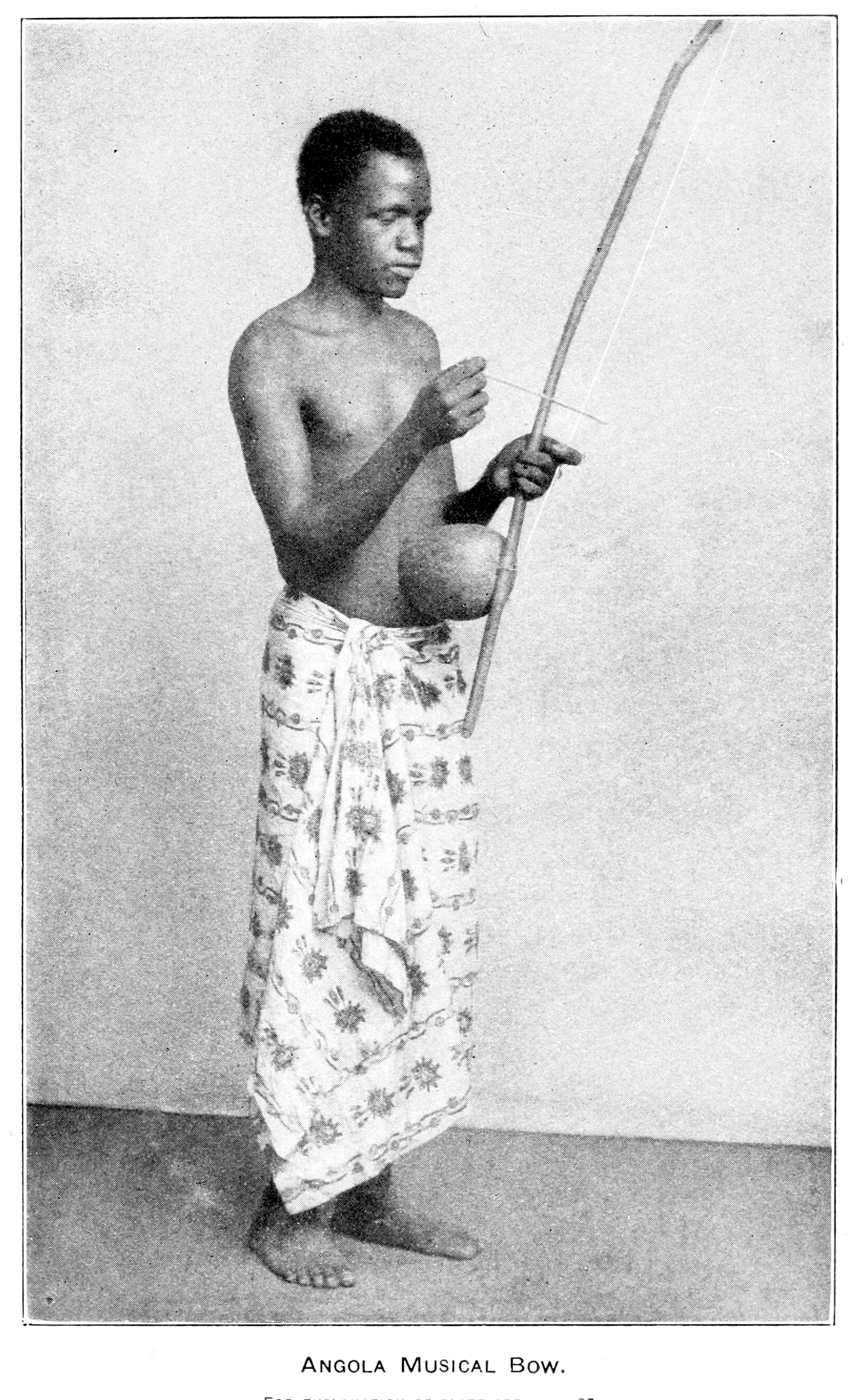 Angola musical bow. Plain stick for bow ; string of twisted hemp cord ; gourd resonator tied to grip of the bow ; open part of gourd rests against the stomach of the player; inclining the gourd gives two or three tones 167,517